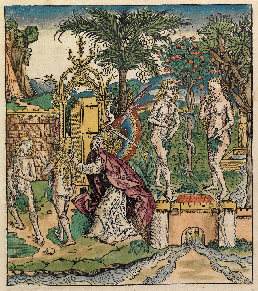 This is a part of a scan of an historical document: Title: Schedelsche Weltchronik or Nuremberg Chronicle